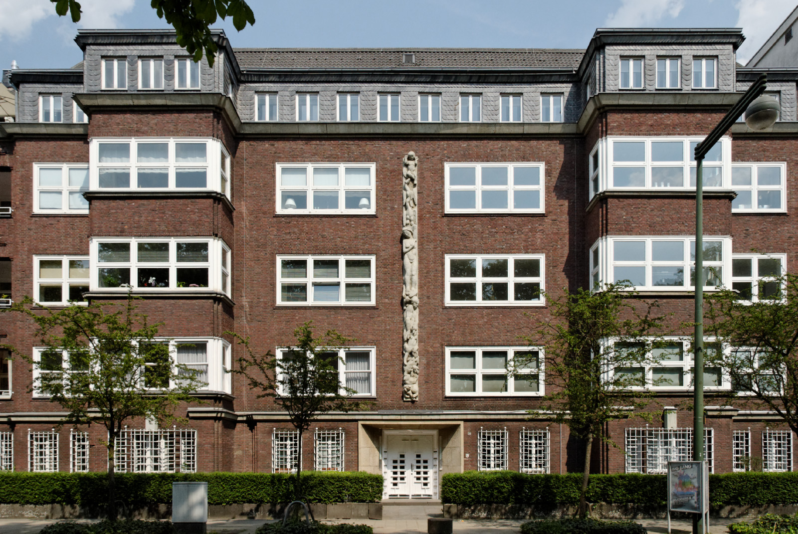 House Cecilienallee 37 to 38a in Düsseldorf-Golzheim, Germany This is a photograph of an architectural monument.